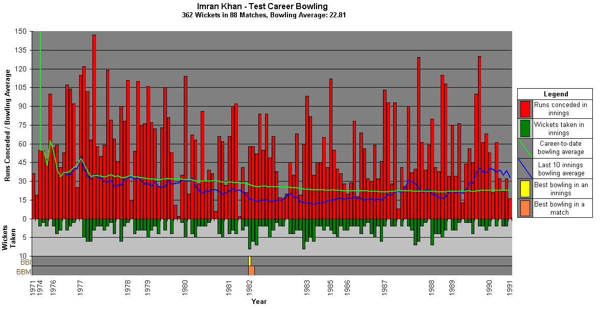 A graph that shows Imran Khan's test career bowling statistics and how they have varied over time. It was created by Masai 162. This image was created using Microsoft Excel and MS Paint. Source Data obtained from This graph is up to date as of 20th September 2007.